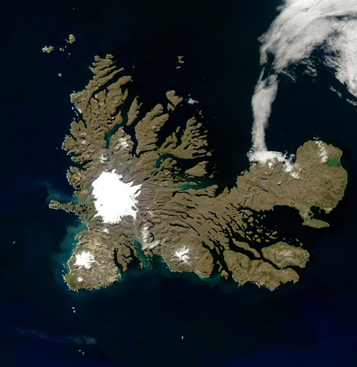 Satellite picture of the Kerguelen Islands